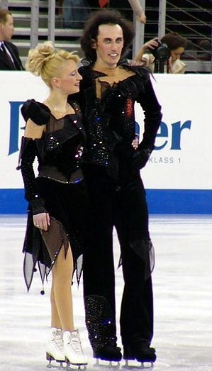 Galit Chait and Sergei Sakhnovski at the 2004 European Figure Skating Championships